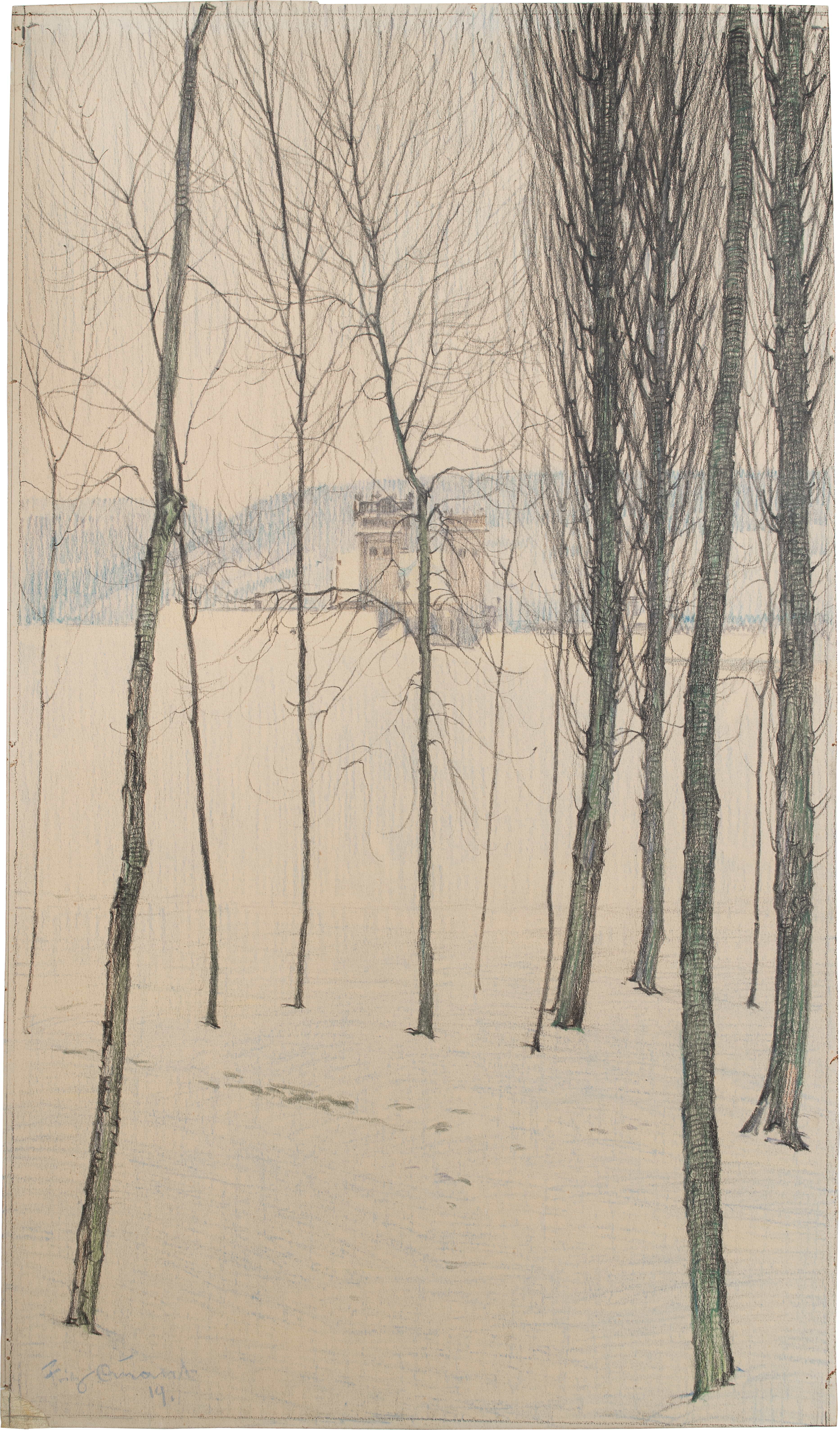 Crayon und pencil drawing on paper by Fritz Quant: St. Matthias' Abbey, Trier, signed und dated [19]19, size: 395 mm x 230 mm.